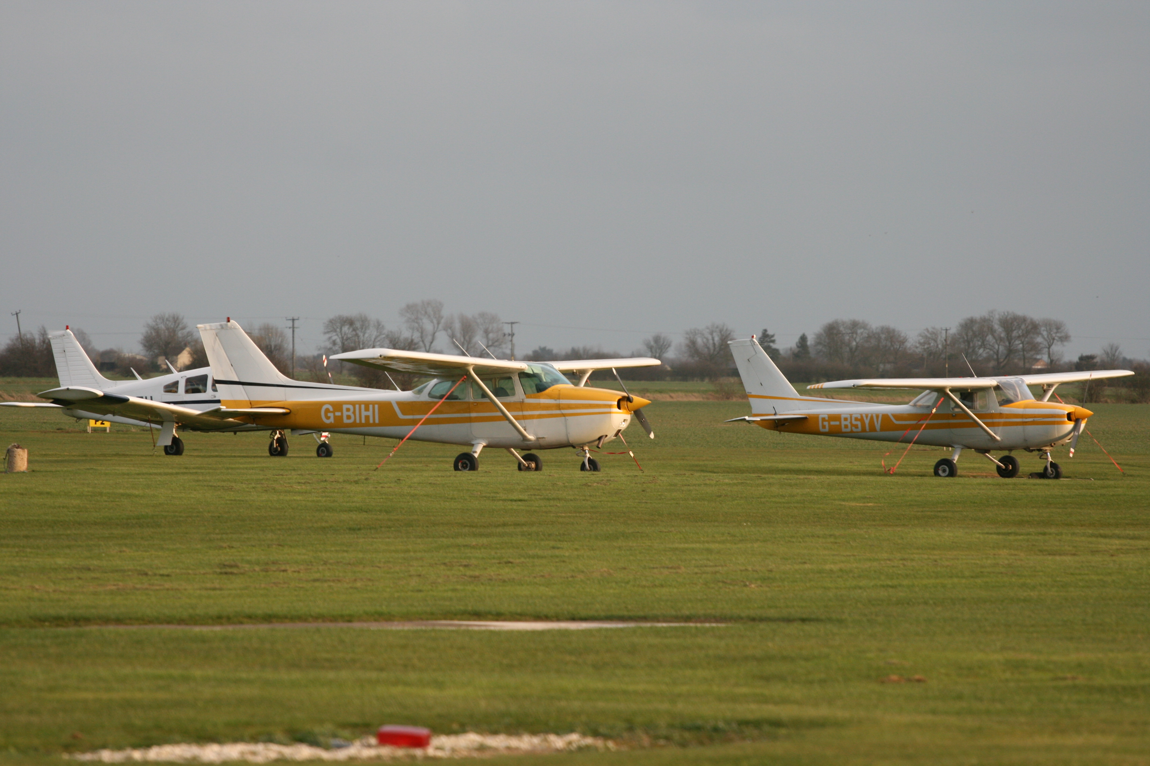 Light aircraft (G-BIHI and G-BSYV visible) parked at Fenland Airfield.